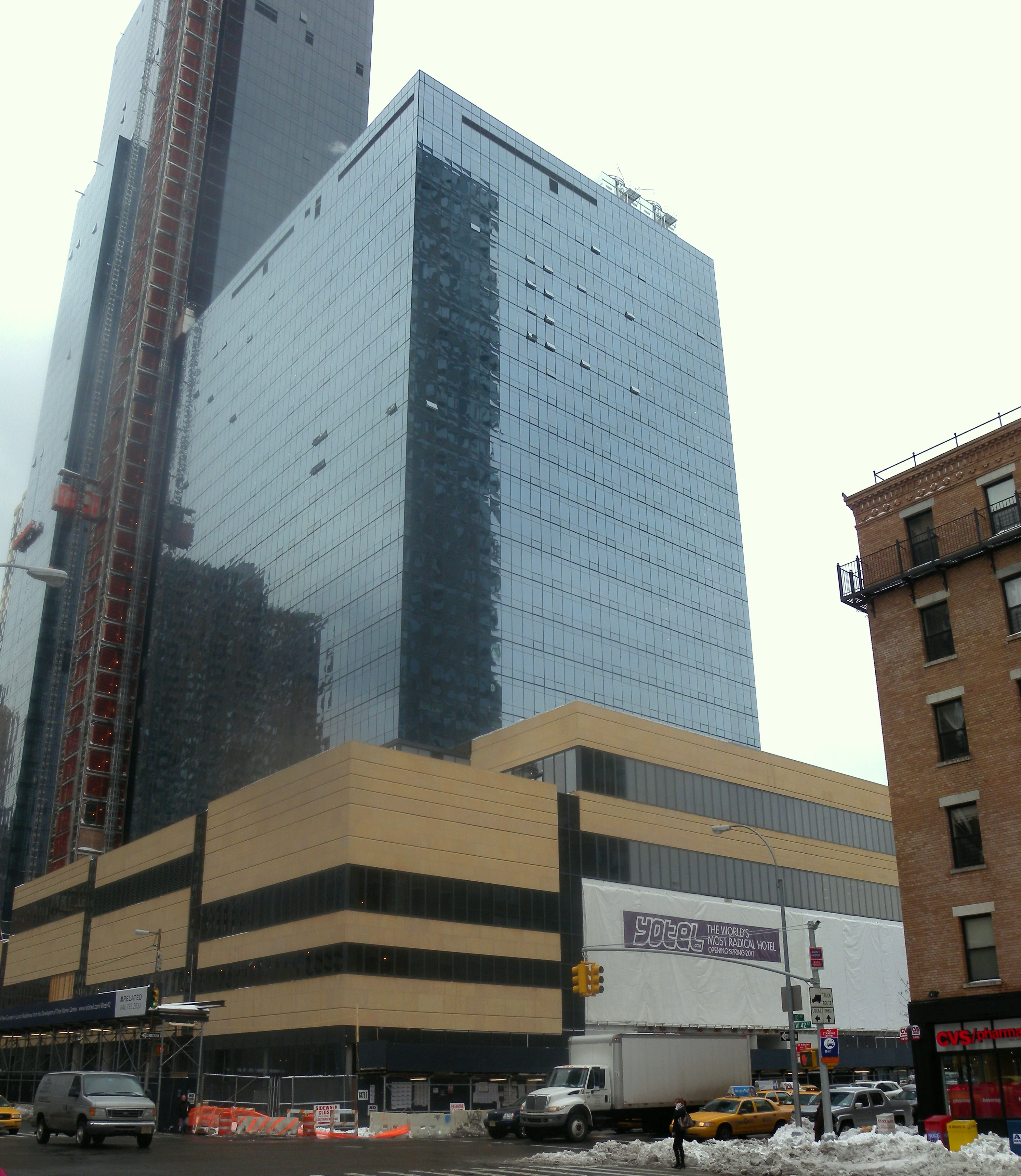 Looking southeast across 10th Avenue and 42nd Street at YOtel under construction on a cloudy day. ZIP 10036.